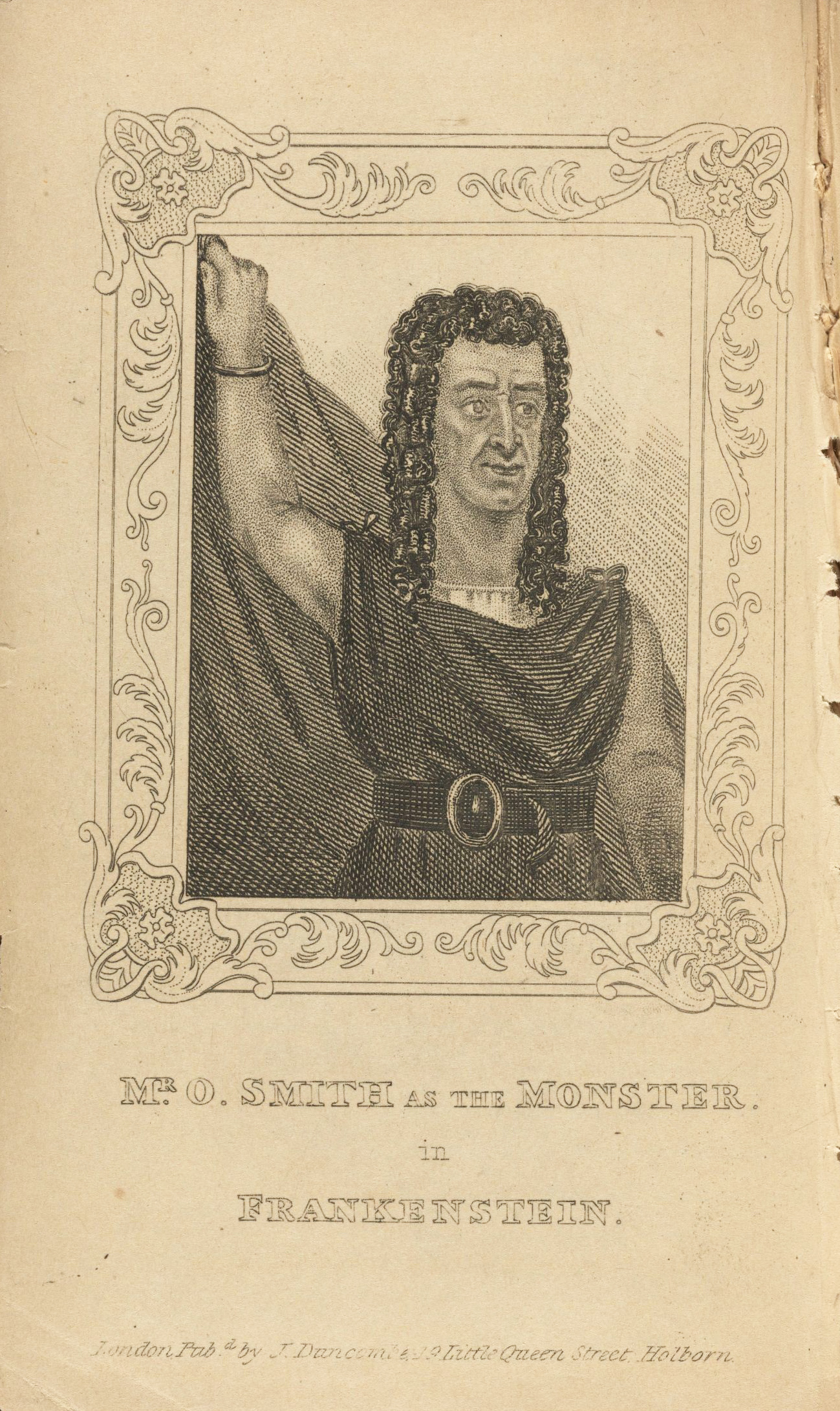 Promptbook: Henry M. Milner, Frankenstein, or, The man and the monster! Undated, but certainly 19th century. Published by J. Duncombe, London. TS Promptbook, Harvard Theatre Collection, Houghton Library, Harvard University